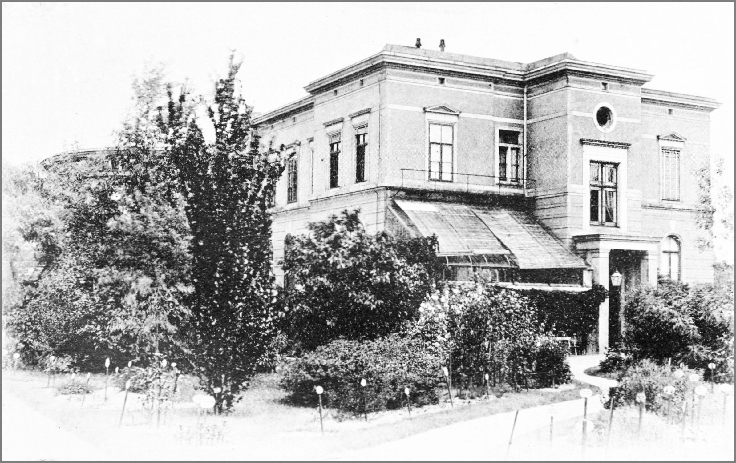 Leipzig Botanical Institute and garden